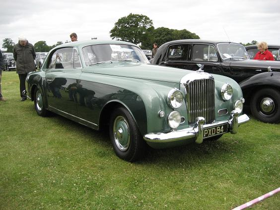 R-type Continental #BC29D Park Ward coupé(DVLA) first registered 8 November 1954, 4500cc